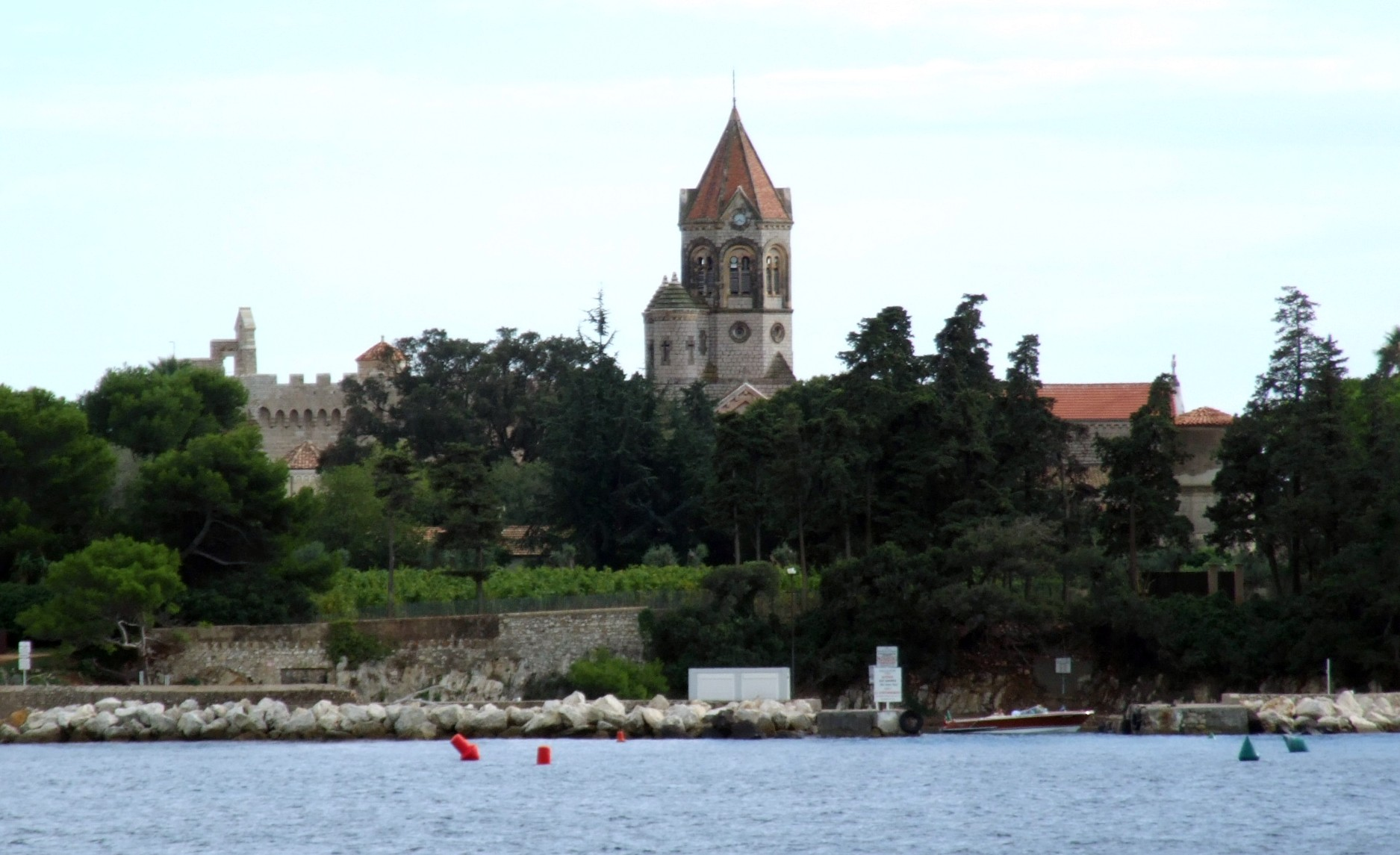 Lérins Islands, FRANCE